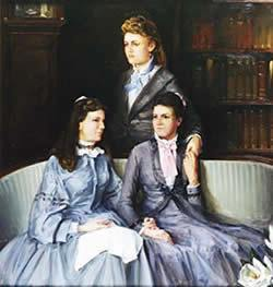 (Circa 1875) Standing: Mary Comfort Leonard; Sitting: Eva Webb Dodd and Anna Boyd Ellington who founded the Delta Gamma Fraternity in 1873.